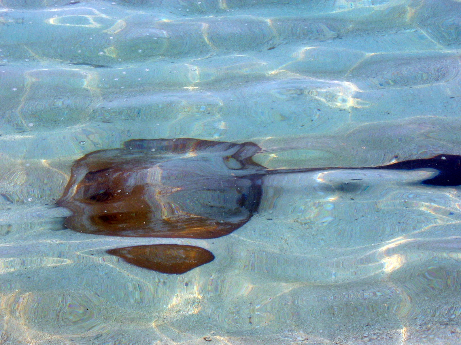 Cowtail stingray (Pastinachus atrus) off Australia